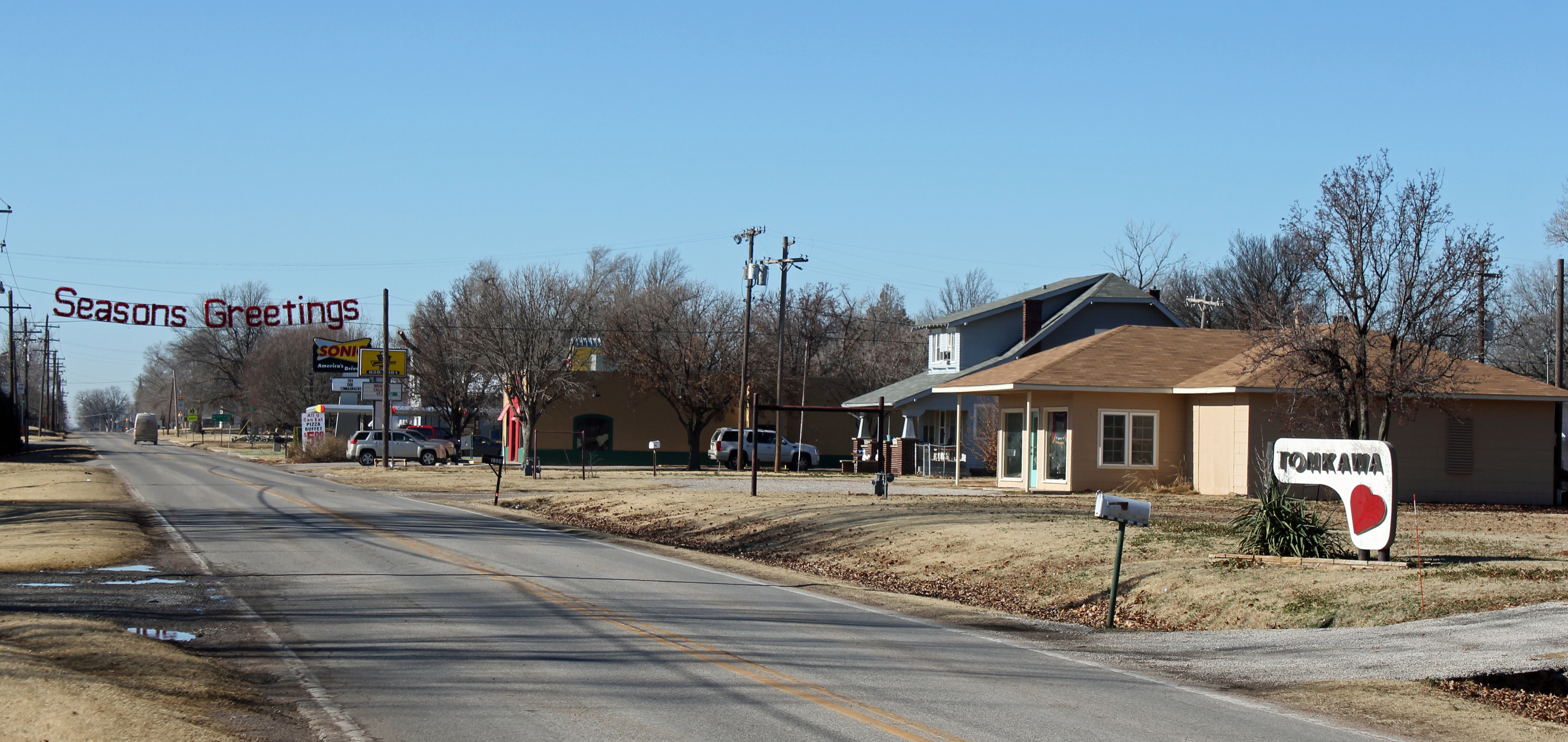 Tonkawa, Oklahoma. The view is along East North Avenue, looking west.